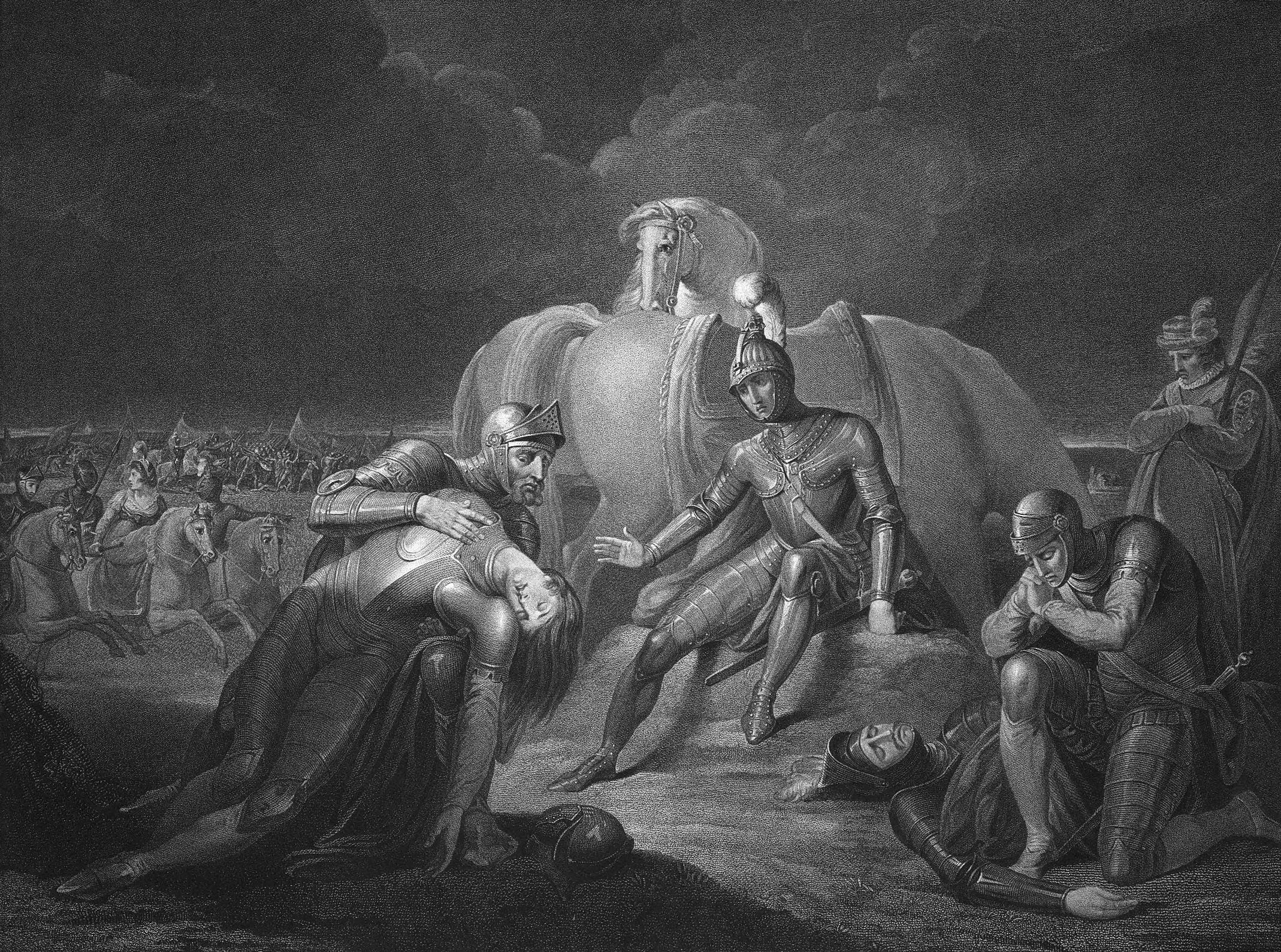 Henry VI, Act 2, Scene 5: Henry sees a father's grieving over the killing of his son, and a son's grieving over the killing of his father during the Battle of Towton, 1461. This engraving of a painting was published on 4 June 1794 by John & Josiah Boydell, Shakspeare Gallery Pall Mall, & No. 90, Cheapside.